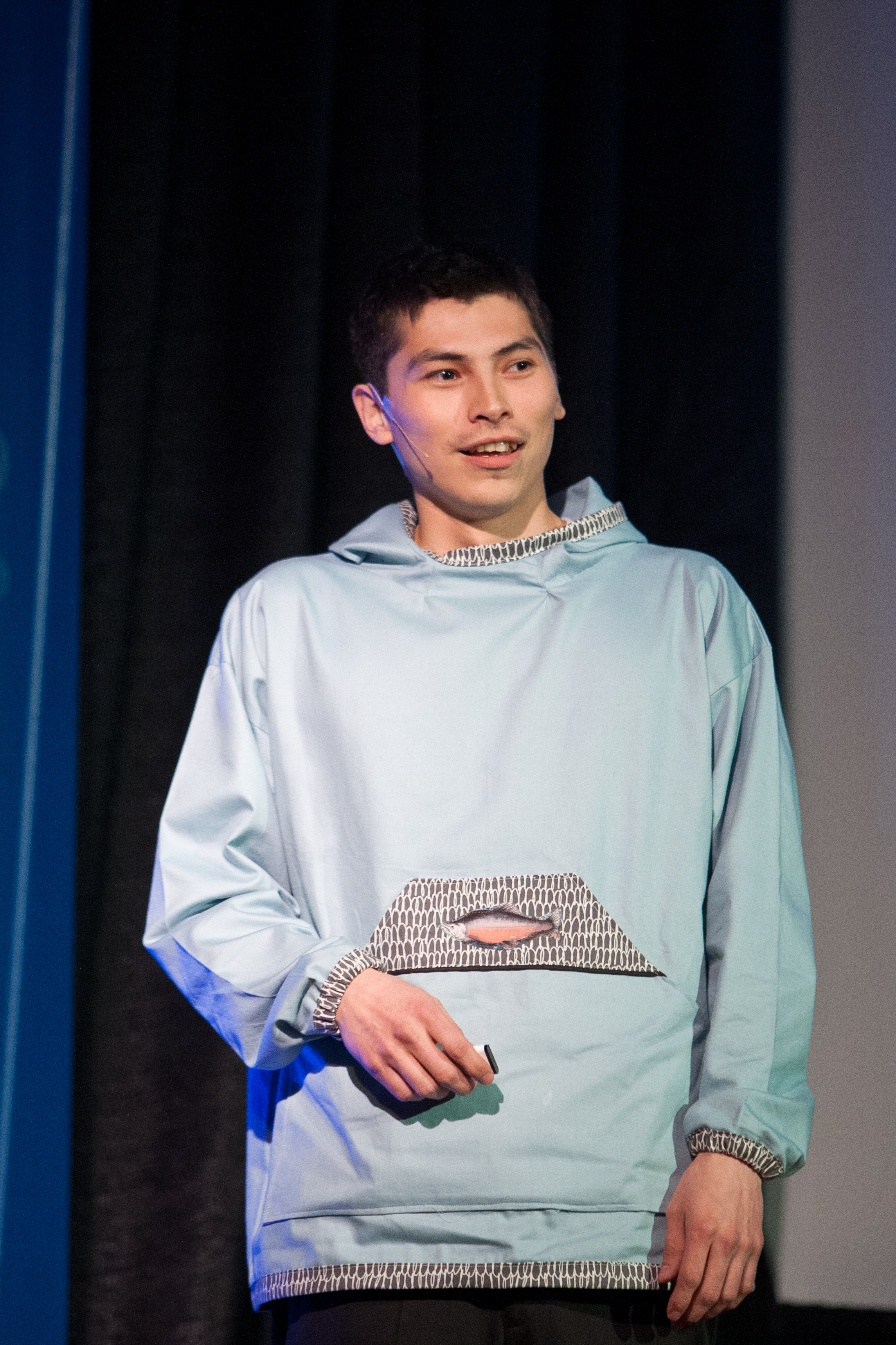 Bristol Bay fisherman Gary Cline wearing a kuspuk while giving a TedX talk